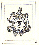 Logo of Theo. Stroefer's Kunstverlag, Nürnberg, for postcards, c. 1905